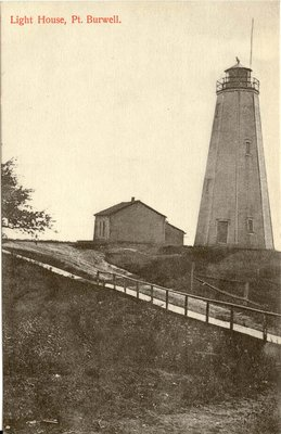 Black and white postcard of the wooden lighthouse at the top of the harbour at Port Burwell, ON. The road runs down to the bridge over Otter Creek.